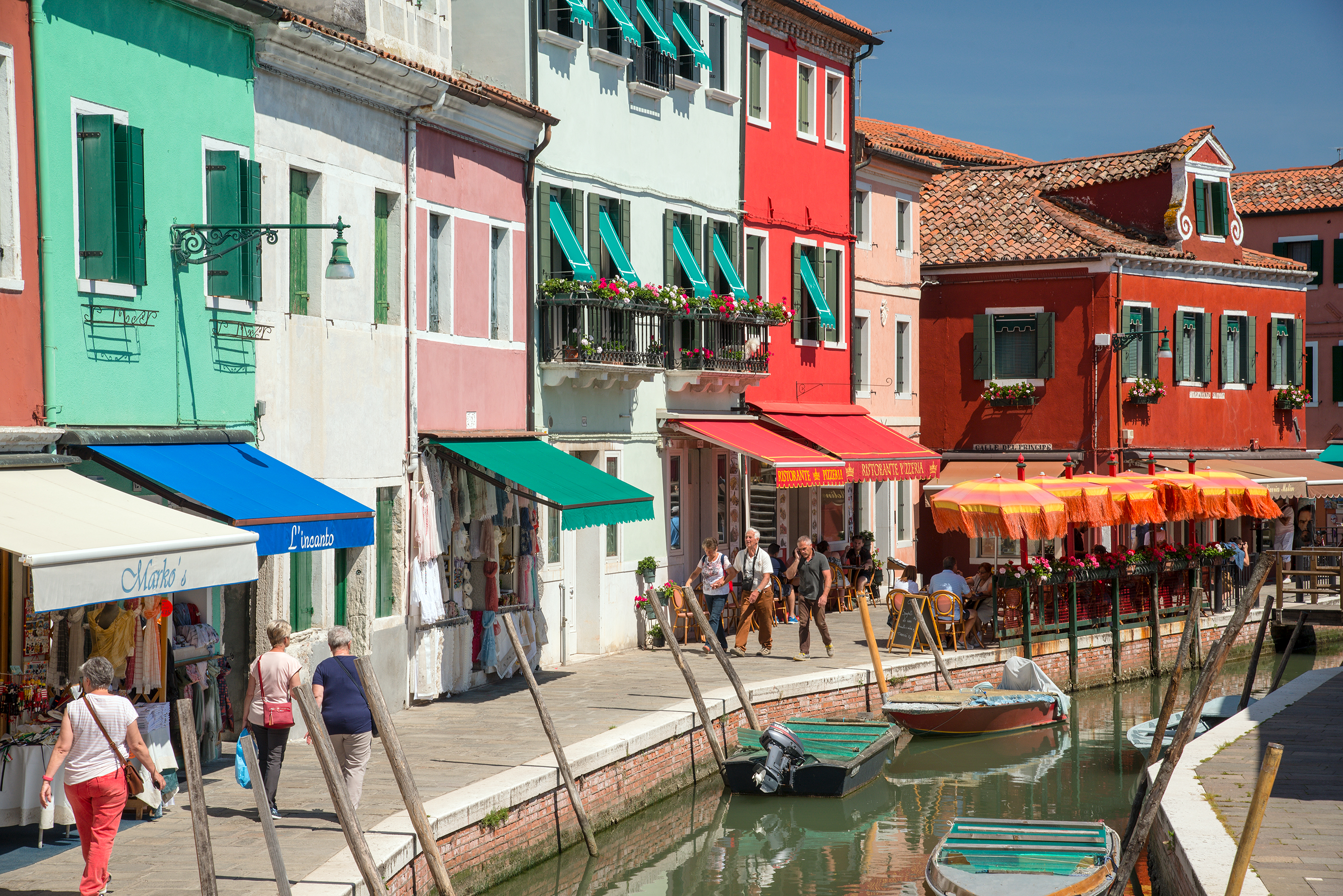 This area includes many stores and restaurants targeting tourists